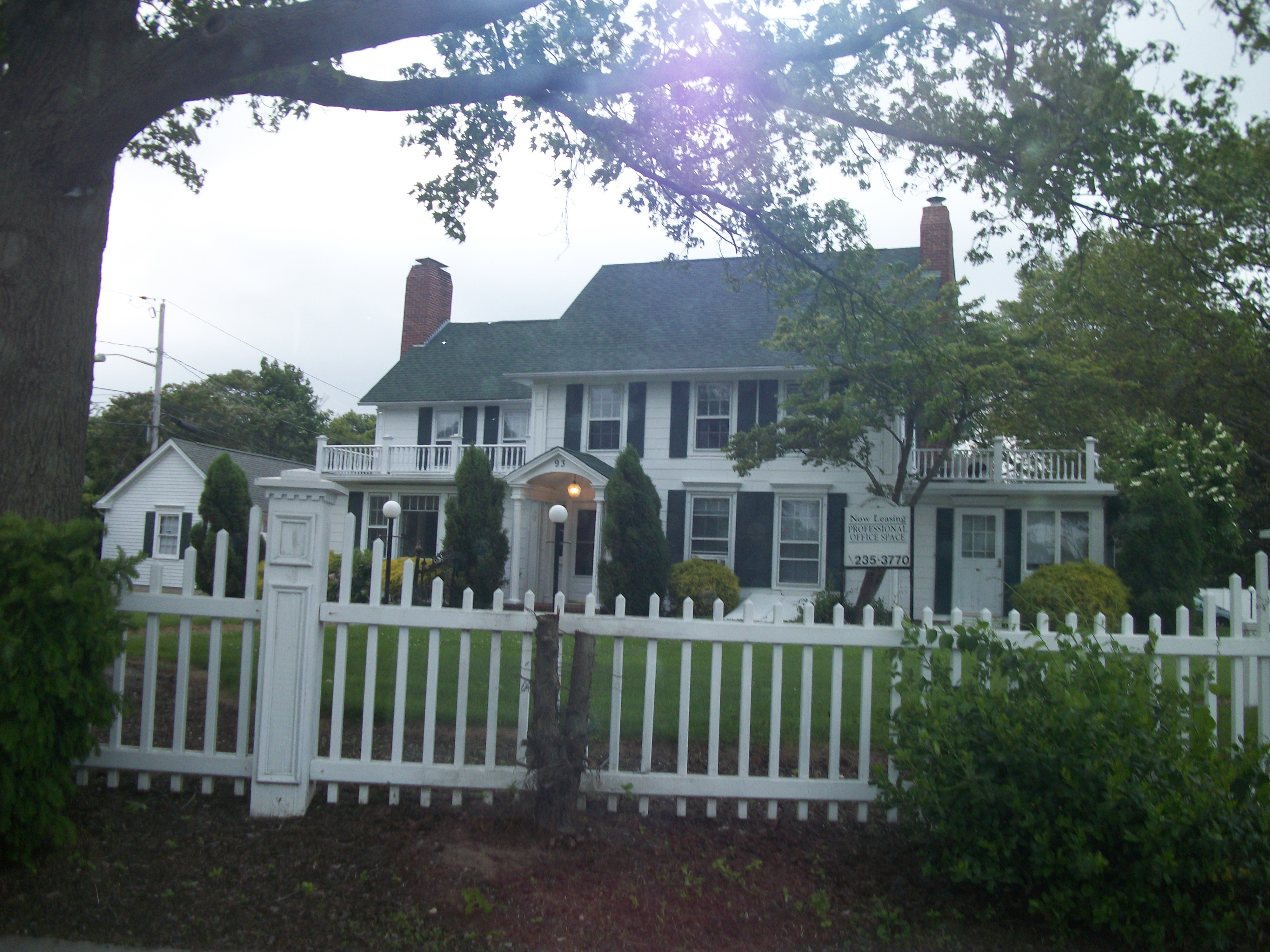 The historic Green House in West Sayville, New York, a house that you would think would be on the National Register of Historic Places, but it isn't.